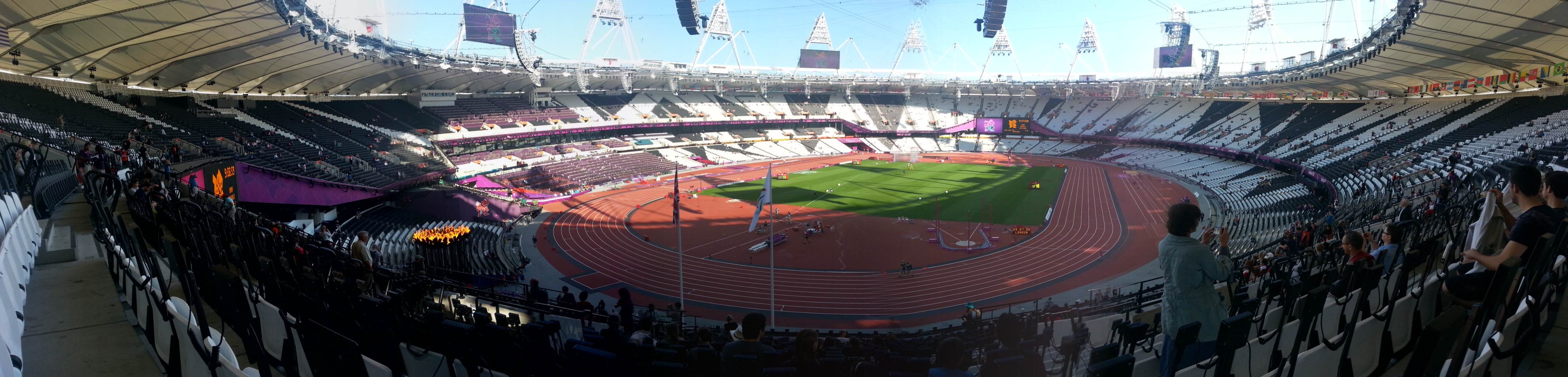 london 2012 olympic stadium, stratford, london uk